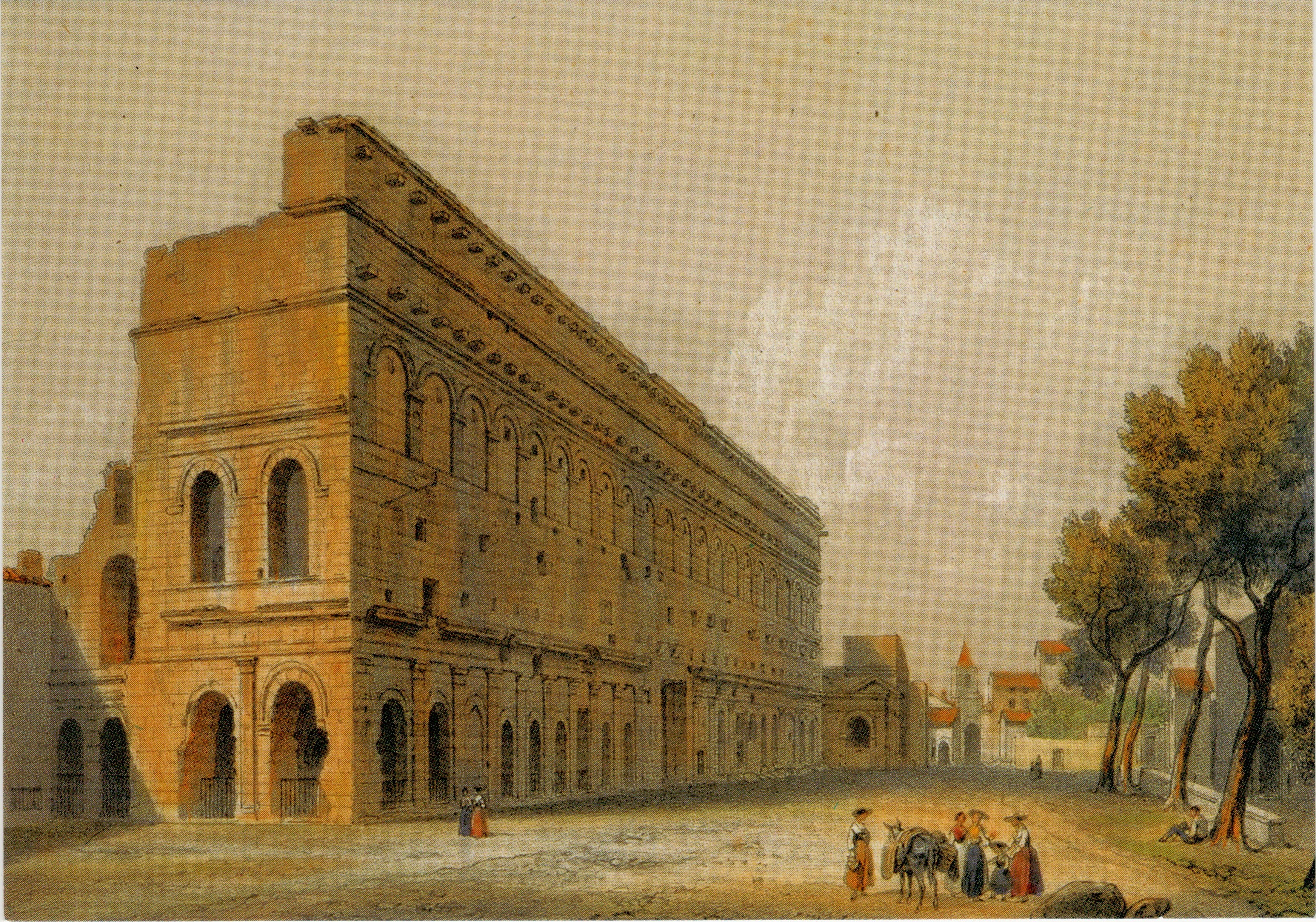 Roman Theatre, Orange, exterior. engraving.